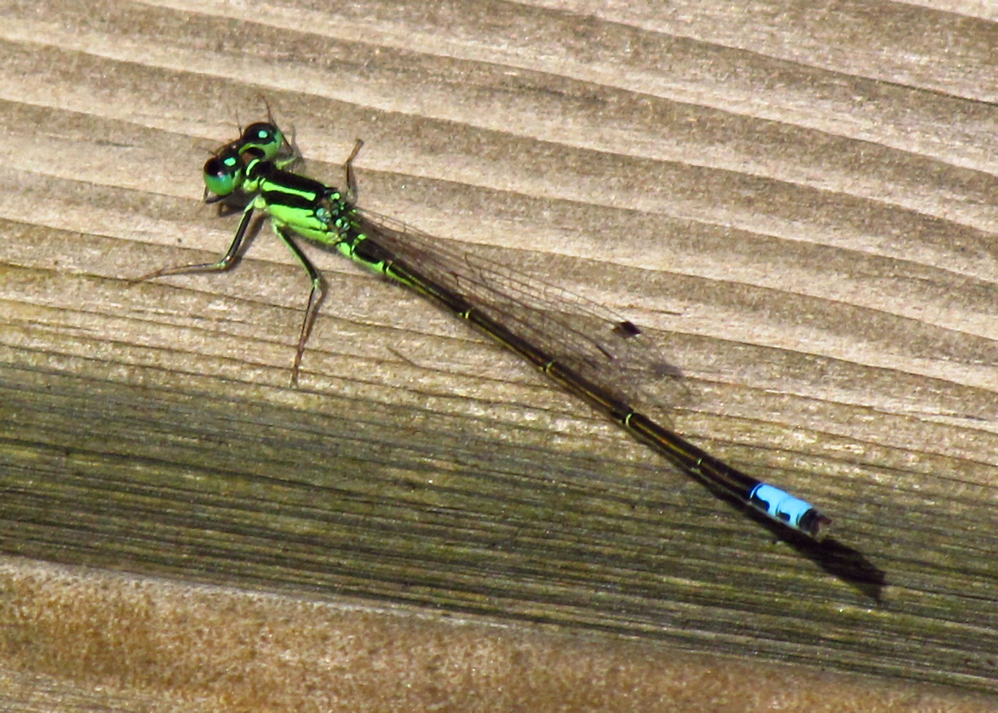 Eastern Forktail (Ischnura verticalis), male, Gatineau Park, Quebec, Canada